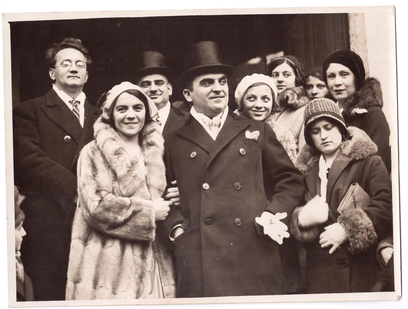 Photo of Petar Bingulac, Anđa Banuševac Bingulac and Josip Slavenski. Photo can be found in the Society for Culture, Art and International Cooperation Adligat in Belgrade, Serbia. Српски (ћирилица): Композитор Јосип Славенски, музиколог Петар Бингулац и његова супруга Анђа Банушевац Бингулац (остали непознати). Фотографија се налази у Удружењу за културу, уметност и међународну сарадњу Адлигат у Београду.